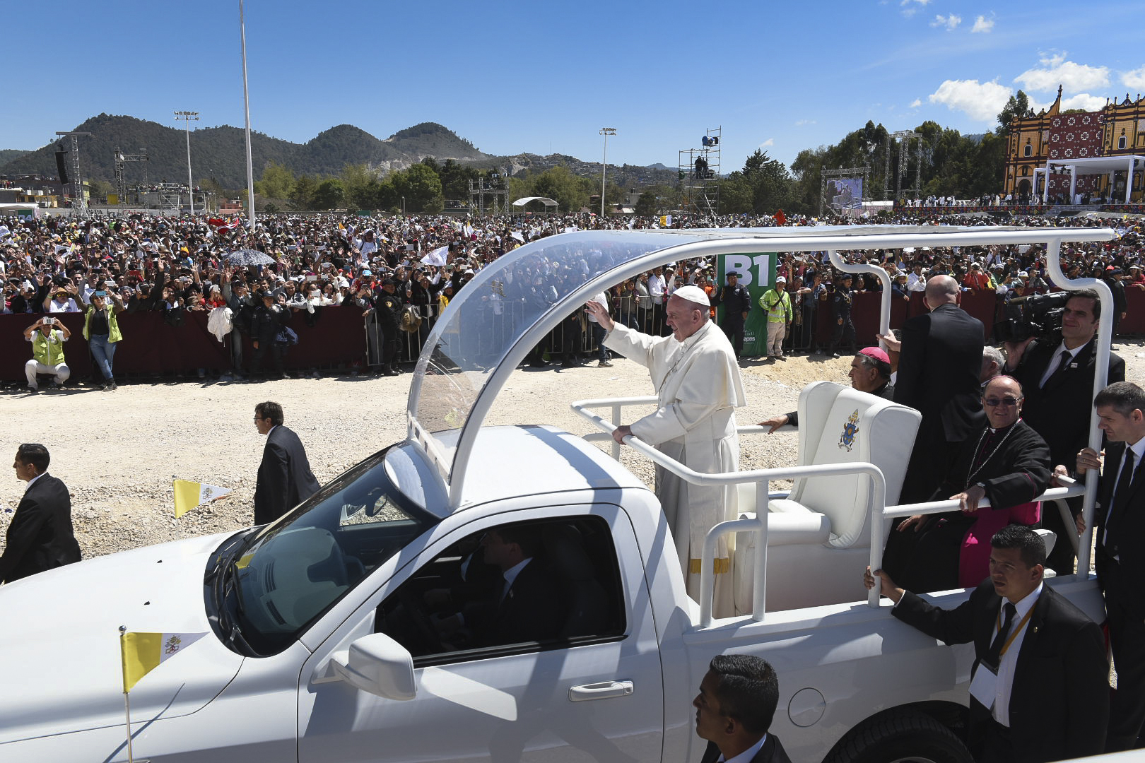 SAN CRISTOBAL, MEXICO: Pope Francis arrives at San Cristobal de las Casas, Mexico, Monday, Feb. 15, 2016. He will be joining Mexico's Indians in celebrating Mass in three languages native to them, Chol, Tzotzil and Tzeltal. The Vatican recently approved the use of these languages use in the liturgy. Photos by Marko Vombergar/ALETEIA